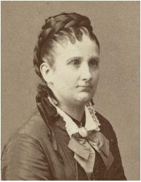 Princess Maria Pia of Bourbon-Two Sicilies, duchess of Parma (detail).